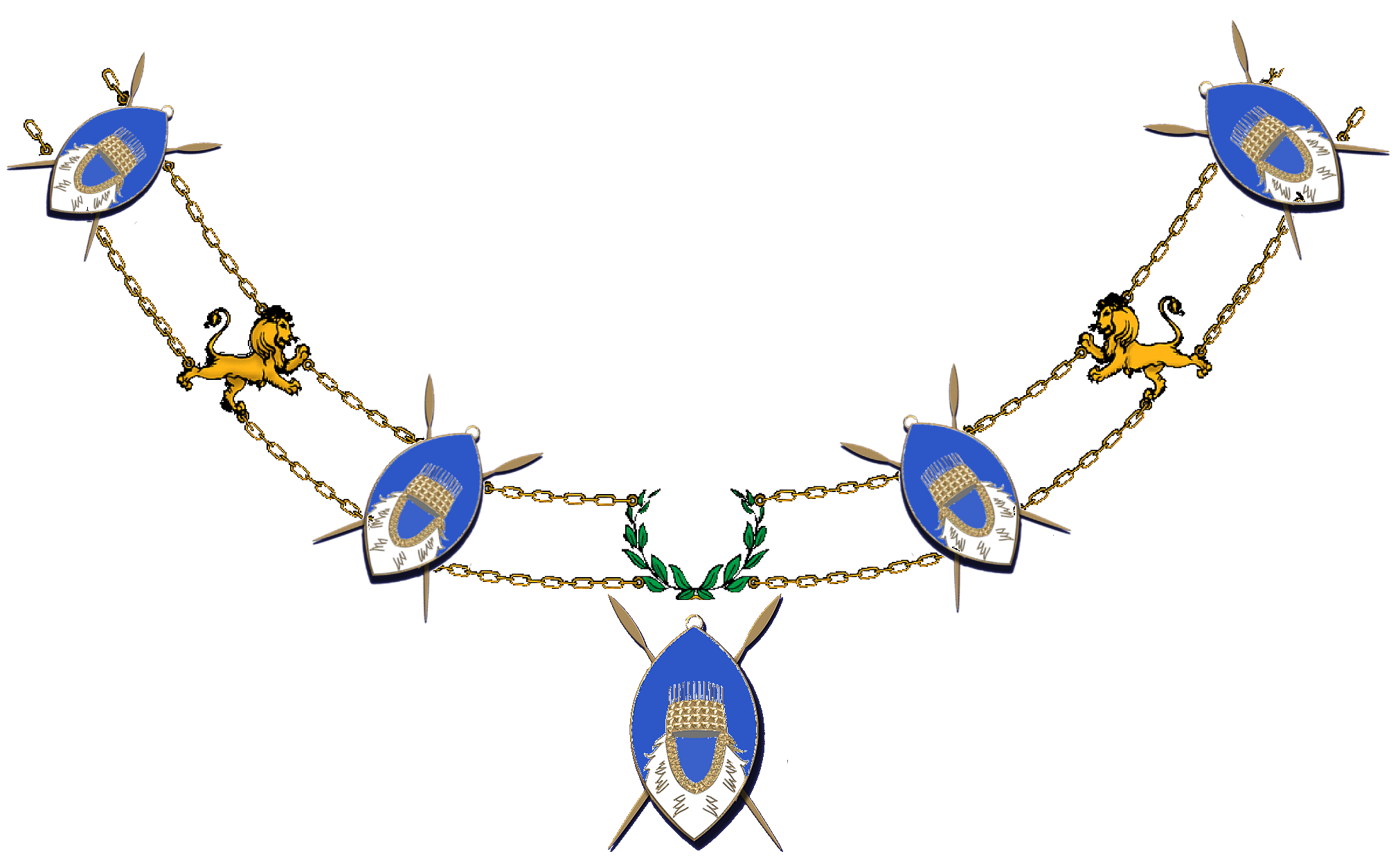 Animation of the Collar of the Order of the Engabu